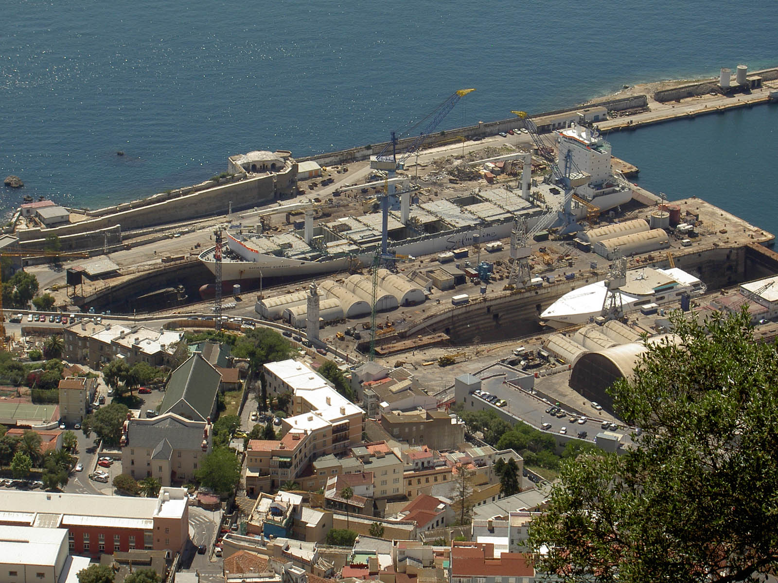 View of the dry docks at Gibdock Gibraltar.